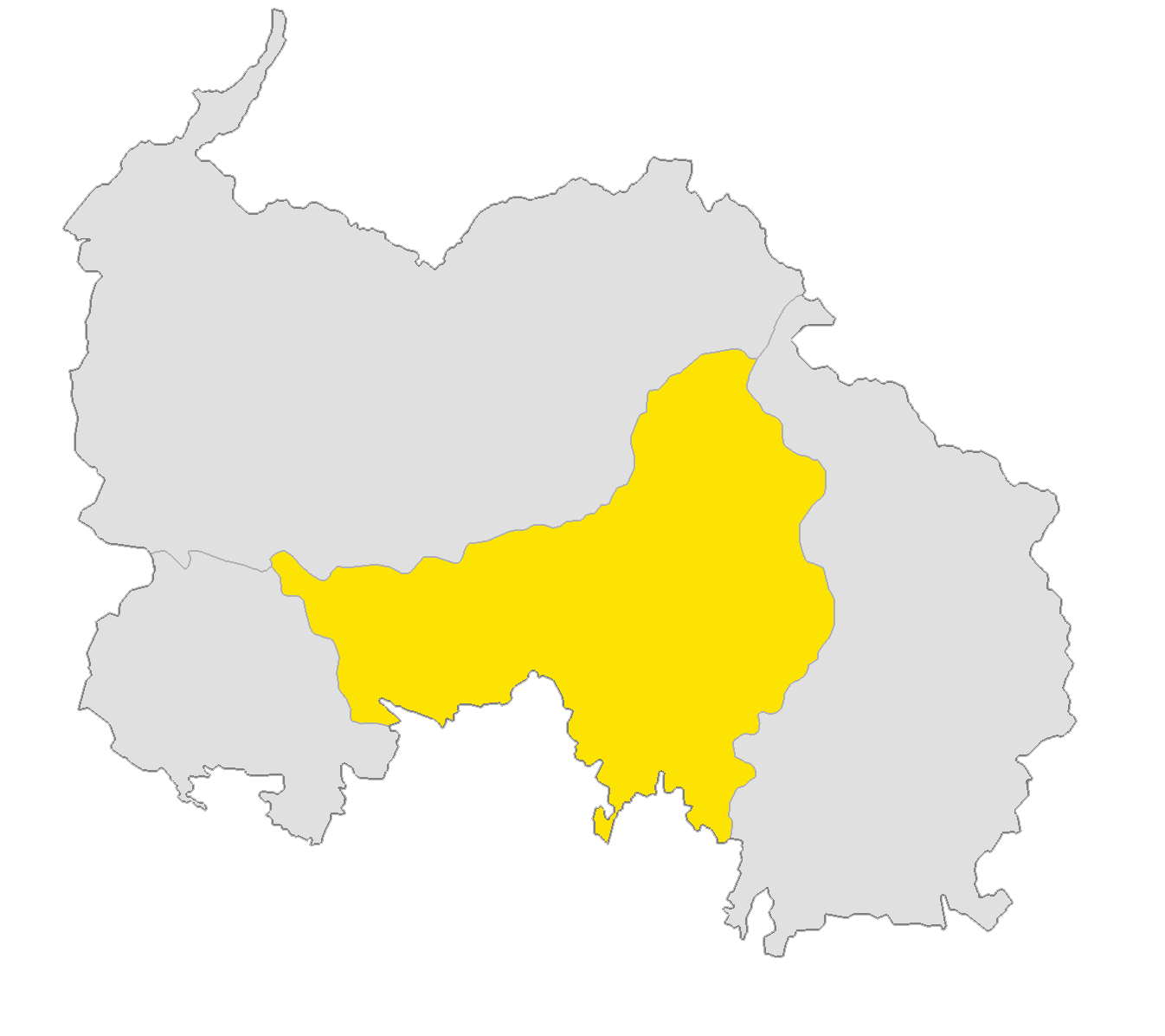 South Ossetia's Tskhinval district